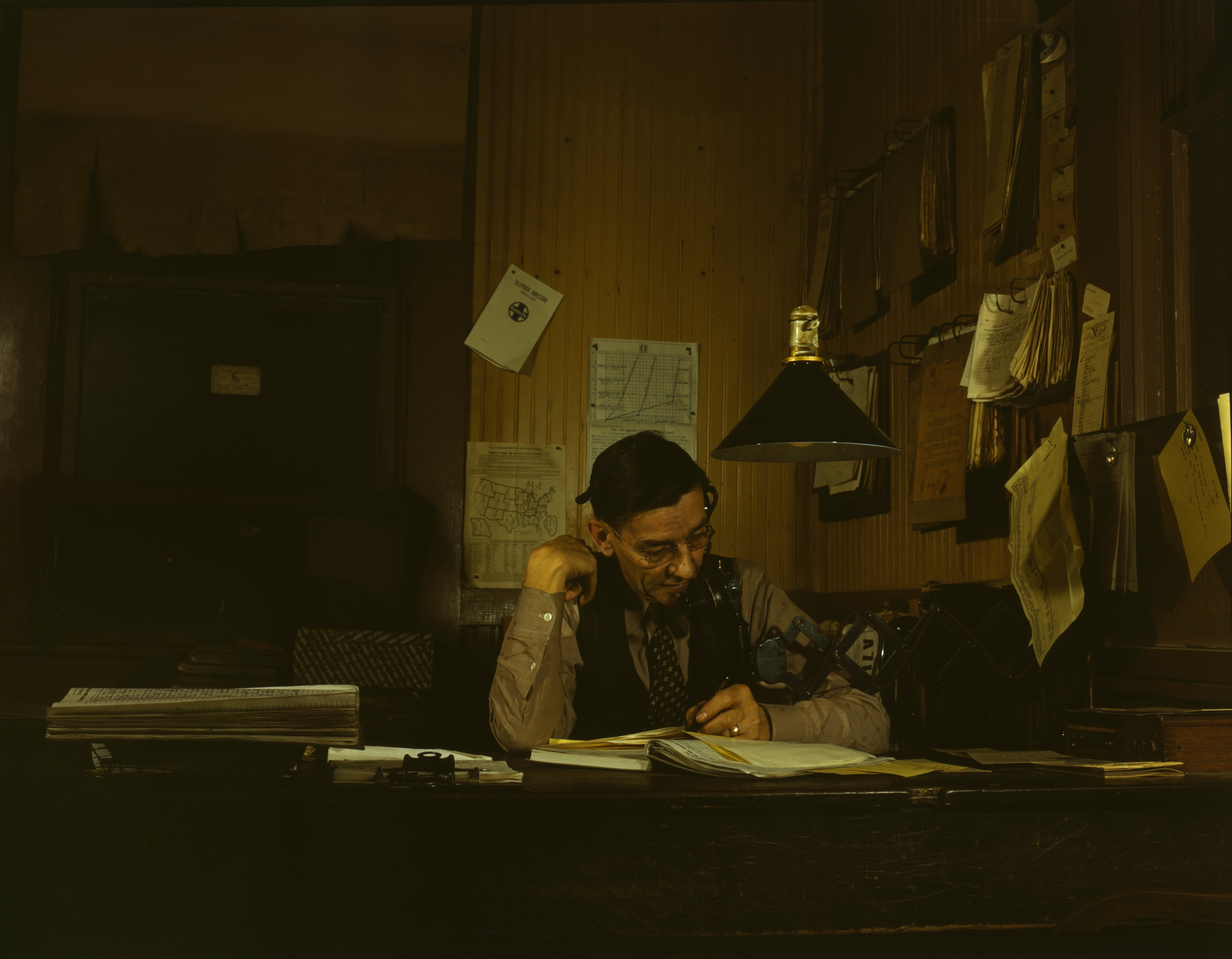 Yardmaster in railroad yards, Amarillo, Texas. Color transparency.